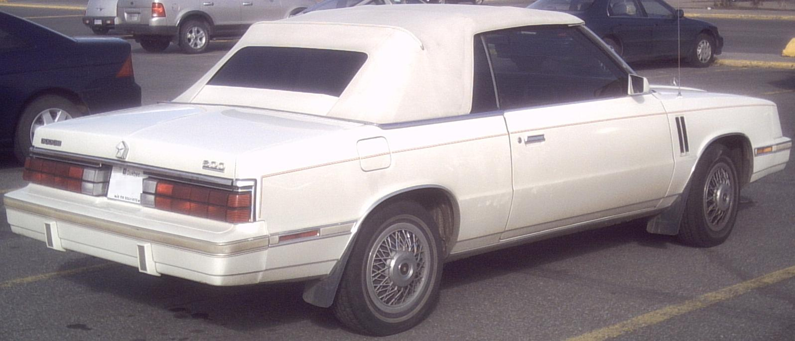 1983-1988 Dodge 600 convertible photographed in Montreal, Quebec, Canada.